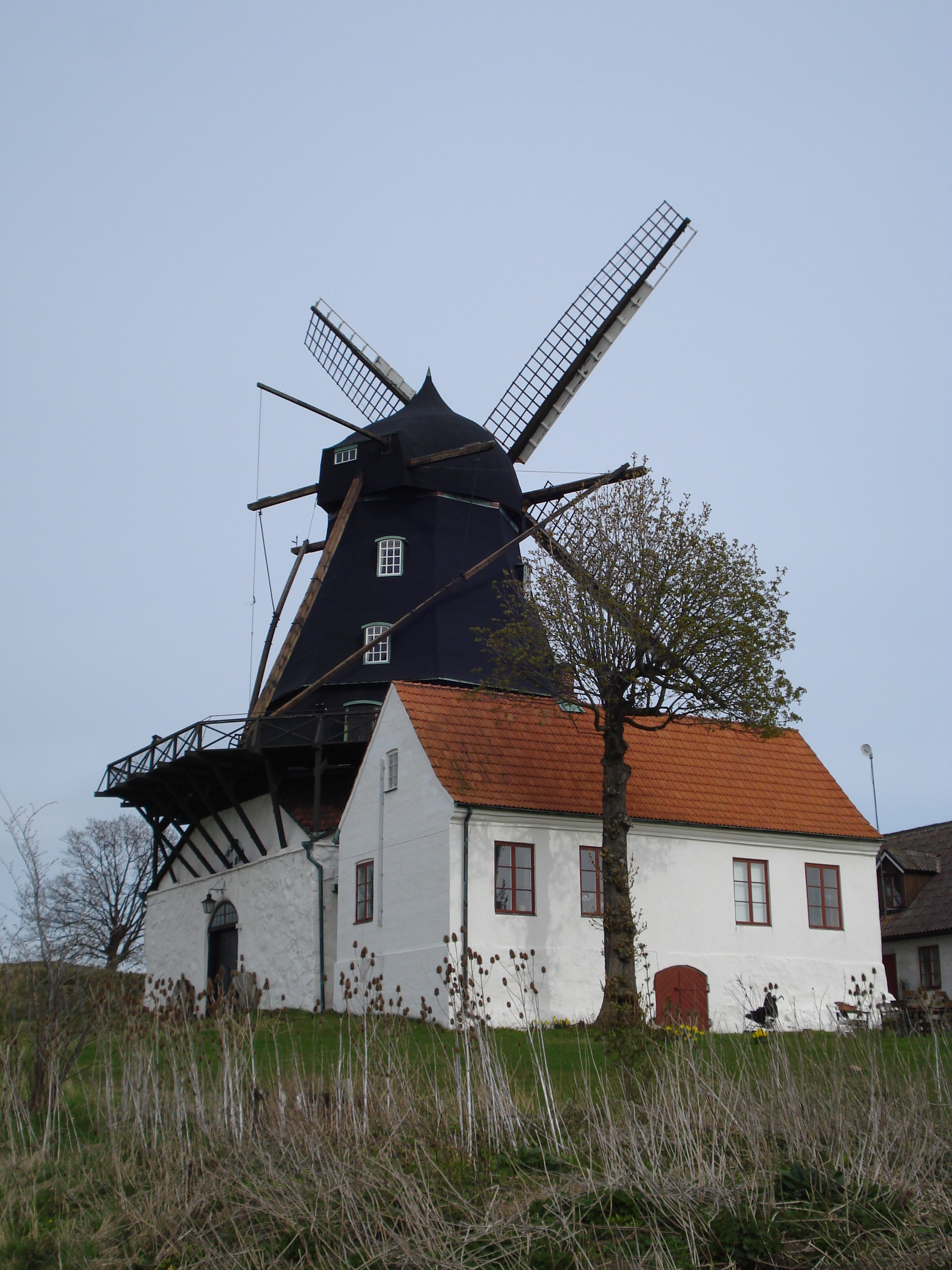 Windmill near Arlöv, Scania, Sweden.